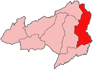 Map of Bong County, Liberia showing Panta-Kpa District; created with the GIMP. Made by User:Acntx.